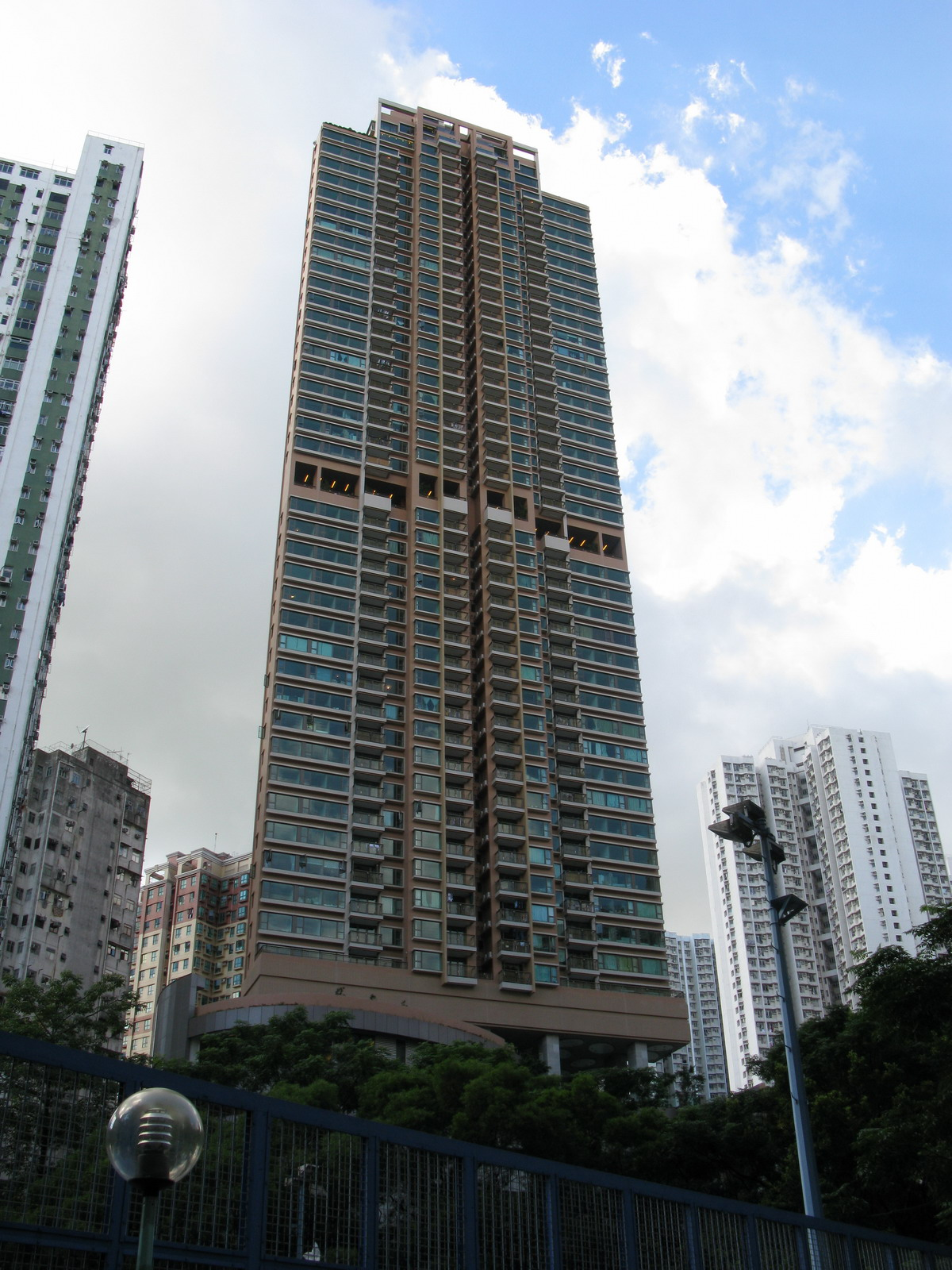 The Forest Hills (Residential), Diamond Hill